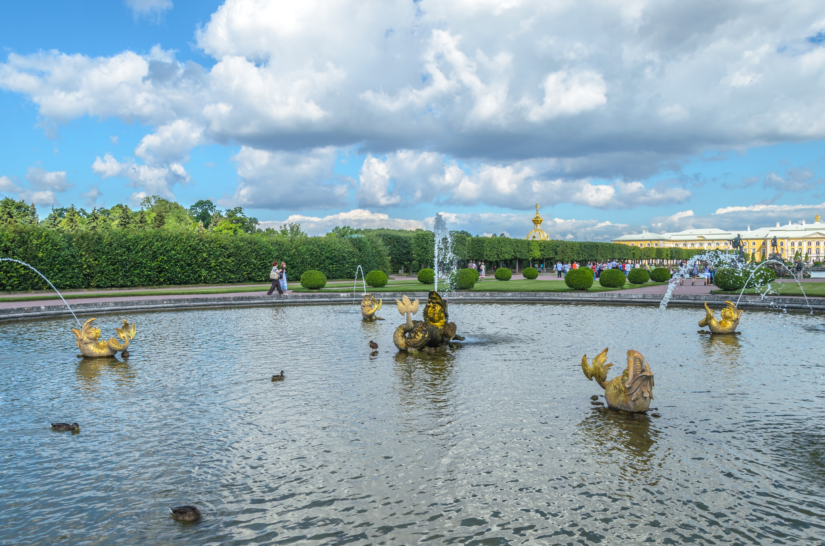 Uncertainty Fountain at Upper Garden of Peterhof